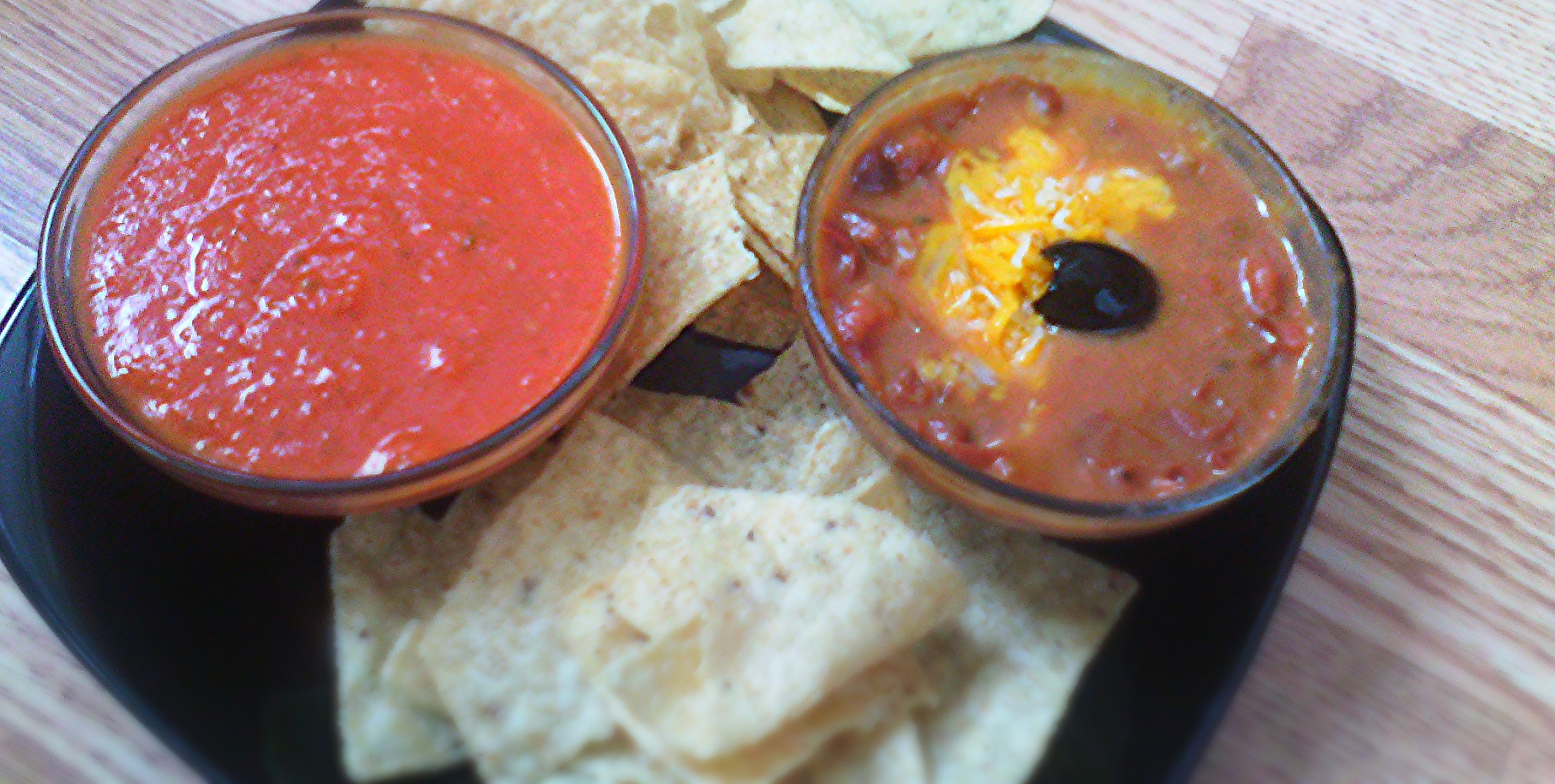 ...homemade restaurant-style salsa and borracho bean dip from scratch. Now all I need to do is make tortillas by hand and fry them into chips myself, and I'll be an honorary Tex-Mexican grandmother.